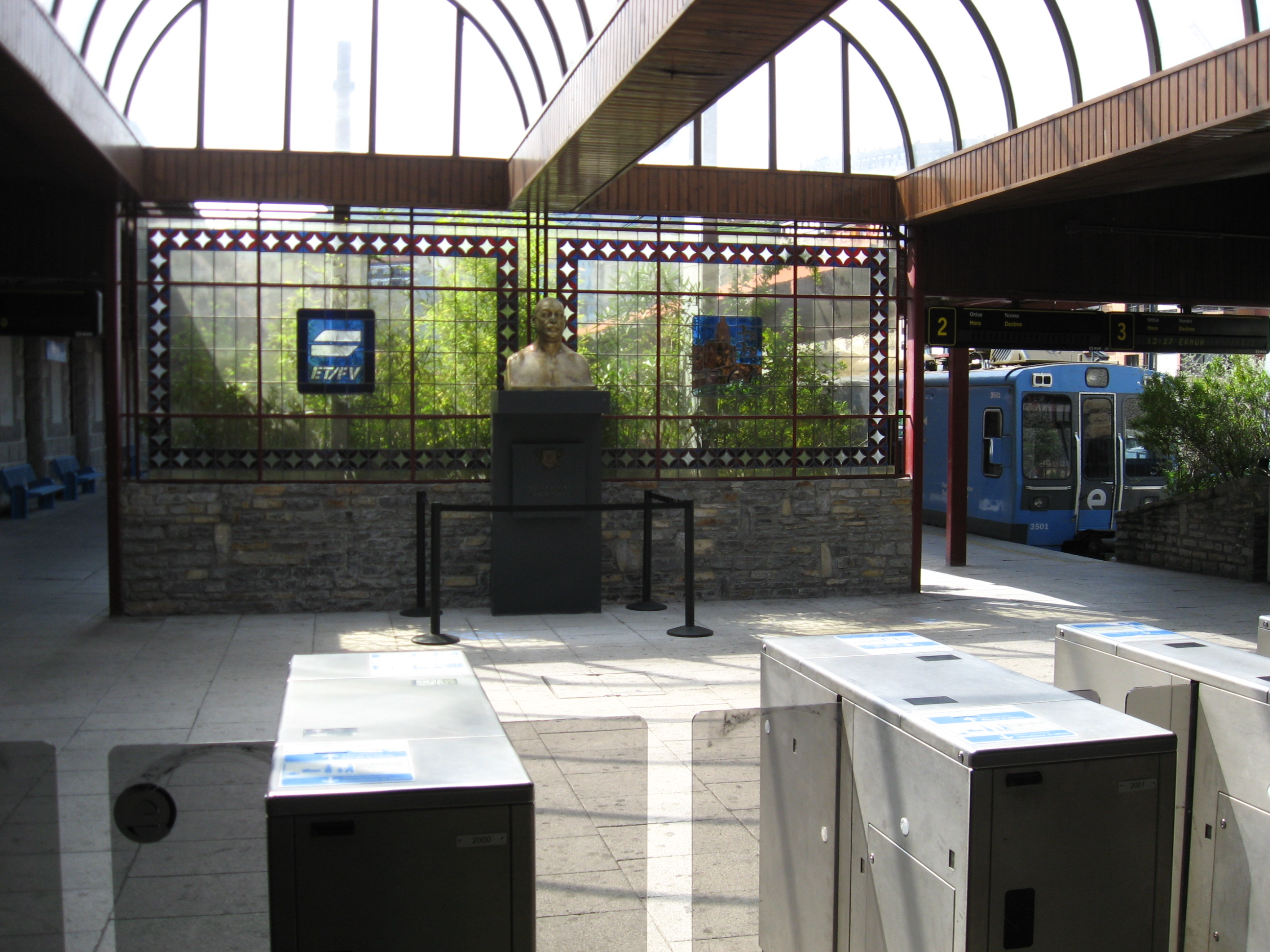 Entrance to Atxuri Euskotren station in Bilbao